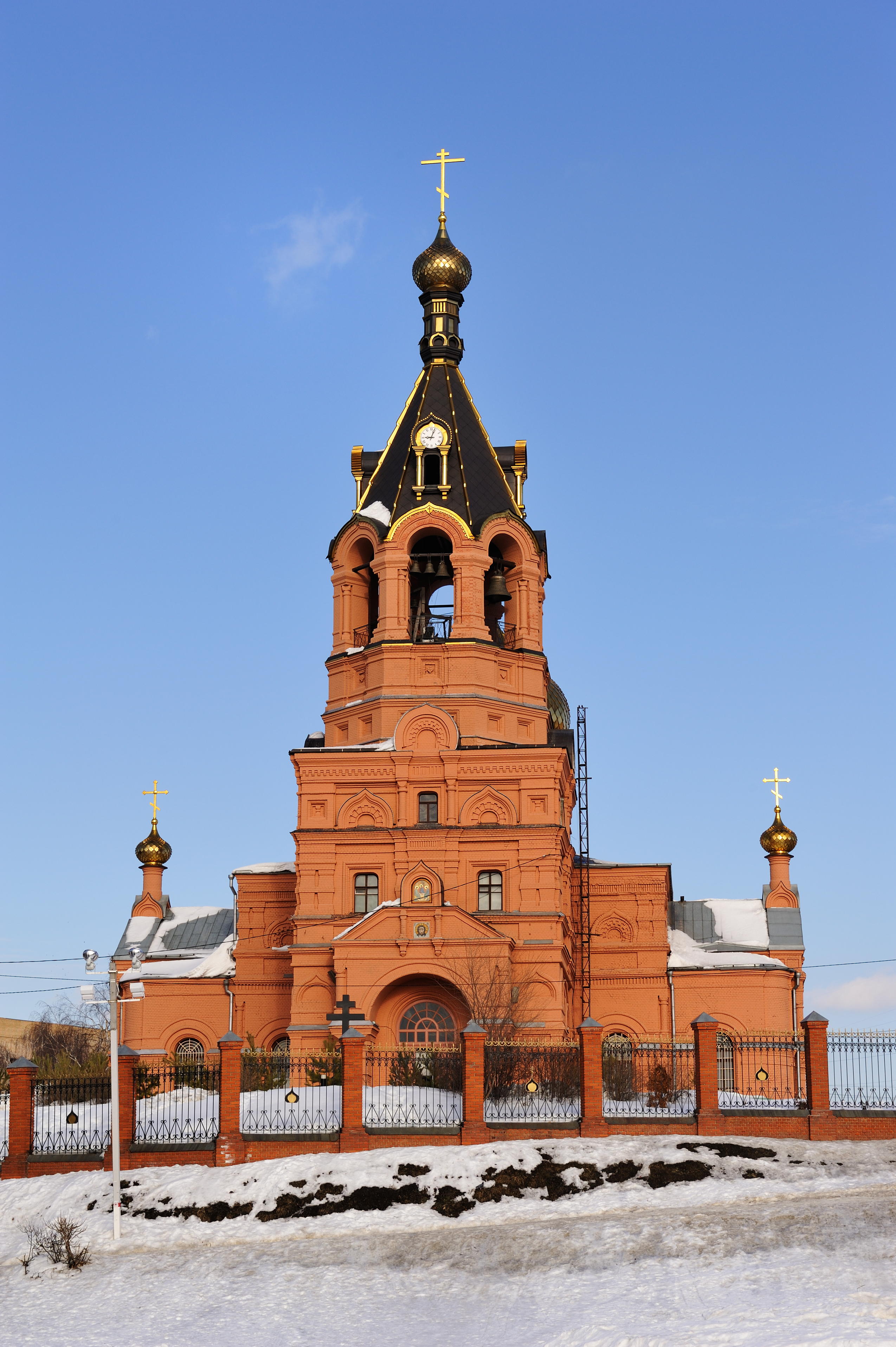 Russia. Moscow Region. Ramenskoye. Trinity Church. It is based in 1847. Was under construction as five-domed 1847-1852 on means of a merchant of P.S.Malyutin. Has been closed in 1938. At restoration five heads have replaced with one dome. It is opened for service in 1989.